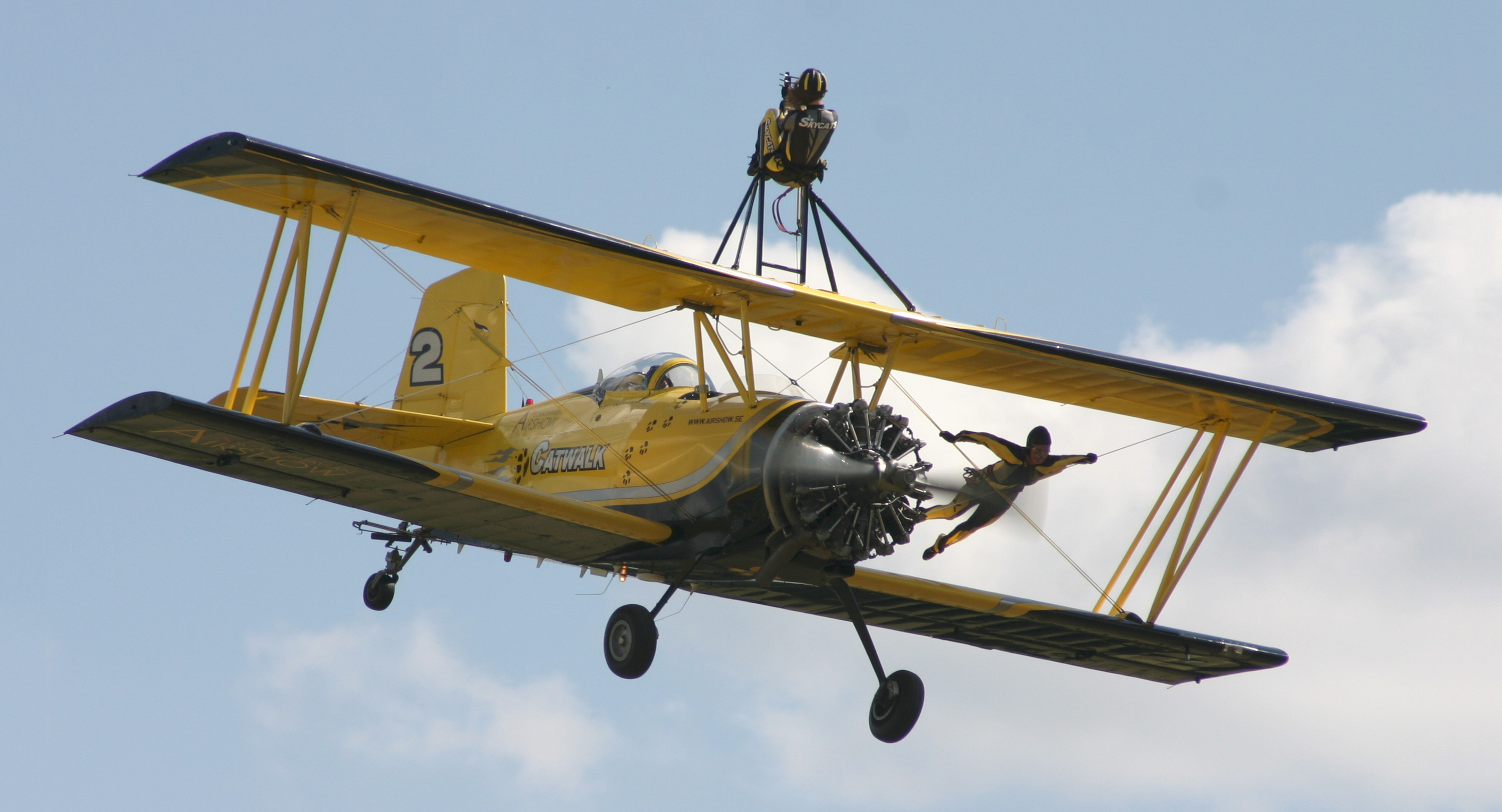 Grumman G-164A Ag-Cat during Góraszka Air Picnic 2007